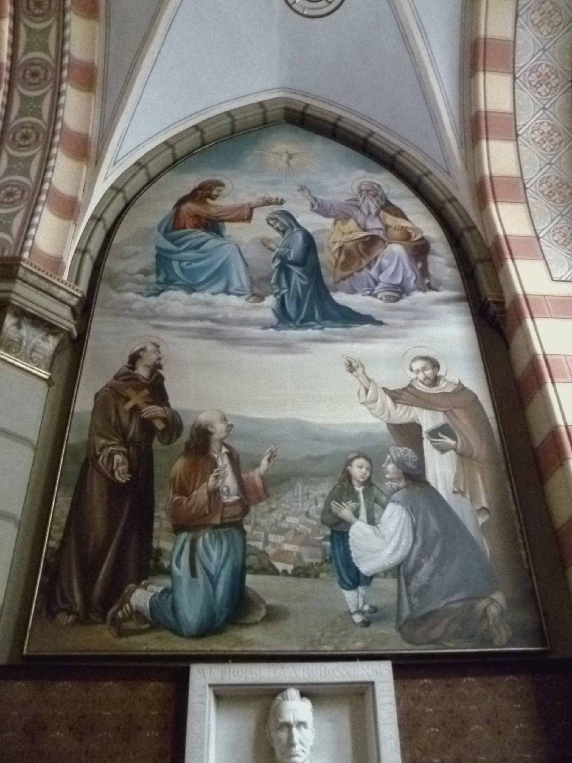 The Coronation of Mary by Alexander Maximilian Seitz. The lower part of the fresco shows a father, mother and child in national dress, surrounded by St. Francis of Assisi and St. Dominic.